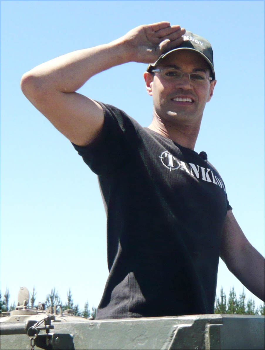 Tankboy atop a Ferret during Operation Roadtrip